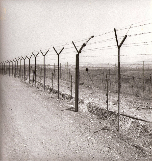 מערכת יעל 5 בקעת בית שאן (ומאחור גדר מב"ת המבוטלת)